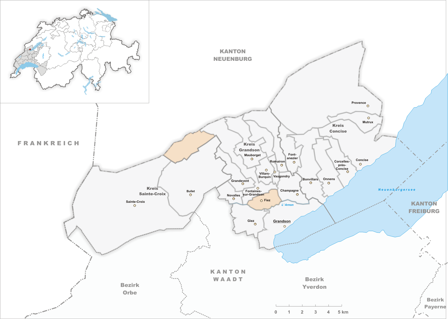 Municipality Fiez